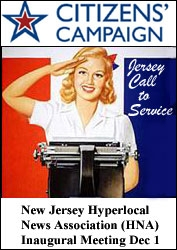 Poster for the inaugural HNA Meeting.